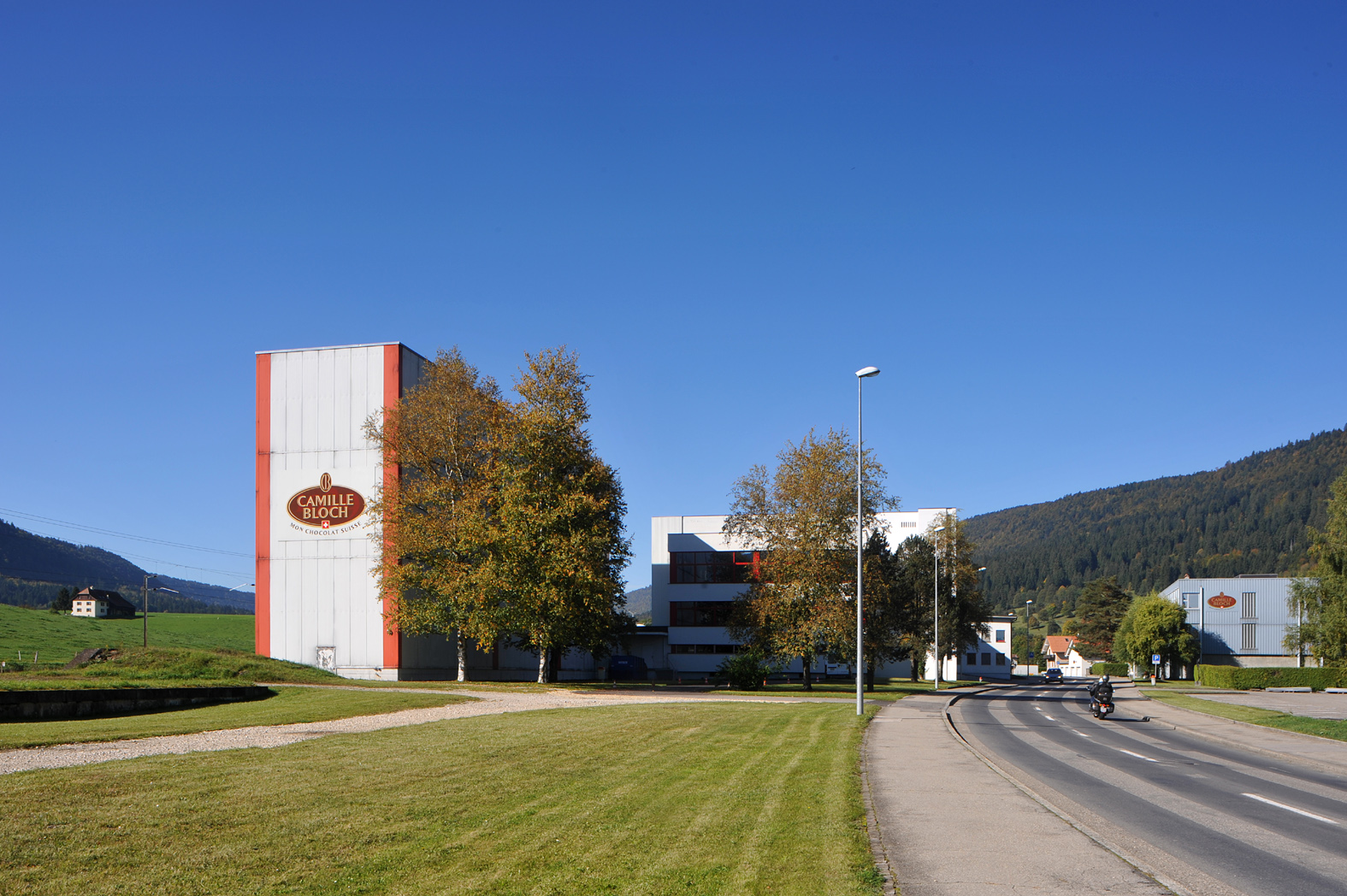 Production site (left) and headquarters (right) of Chocolats Camille Bloch in Courtelary; Bern, Switzerland.